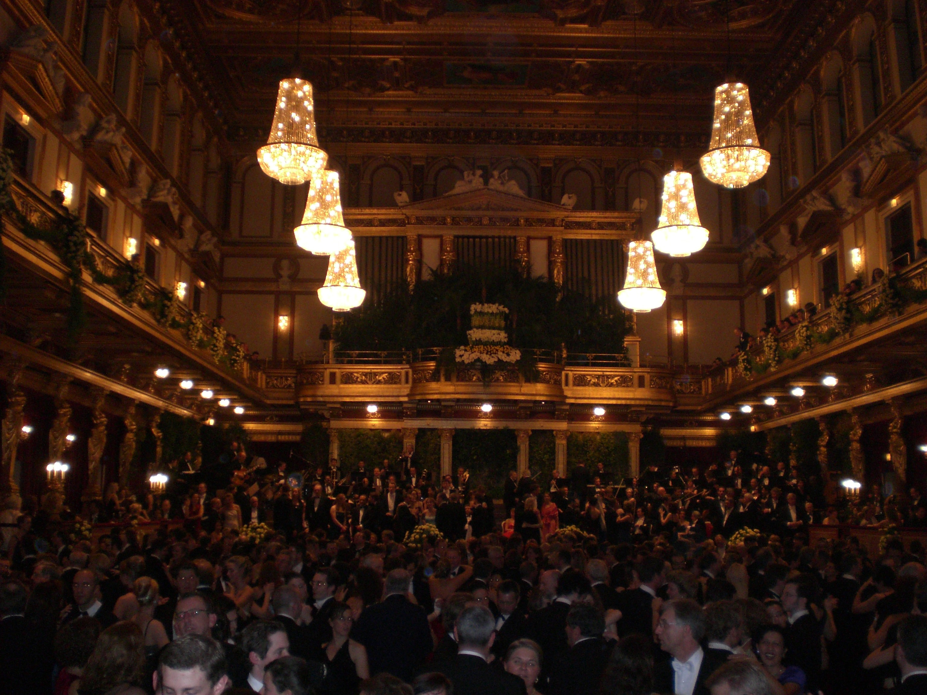 The "Goldener Saal" of the "Musikverein" in Vienna during the "Philharmonikerball", January 18, 2007 pictured by Philipp Stelzel, A-1060 Wien